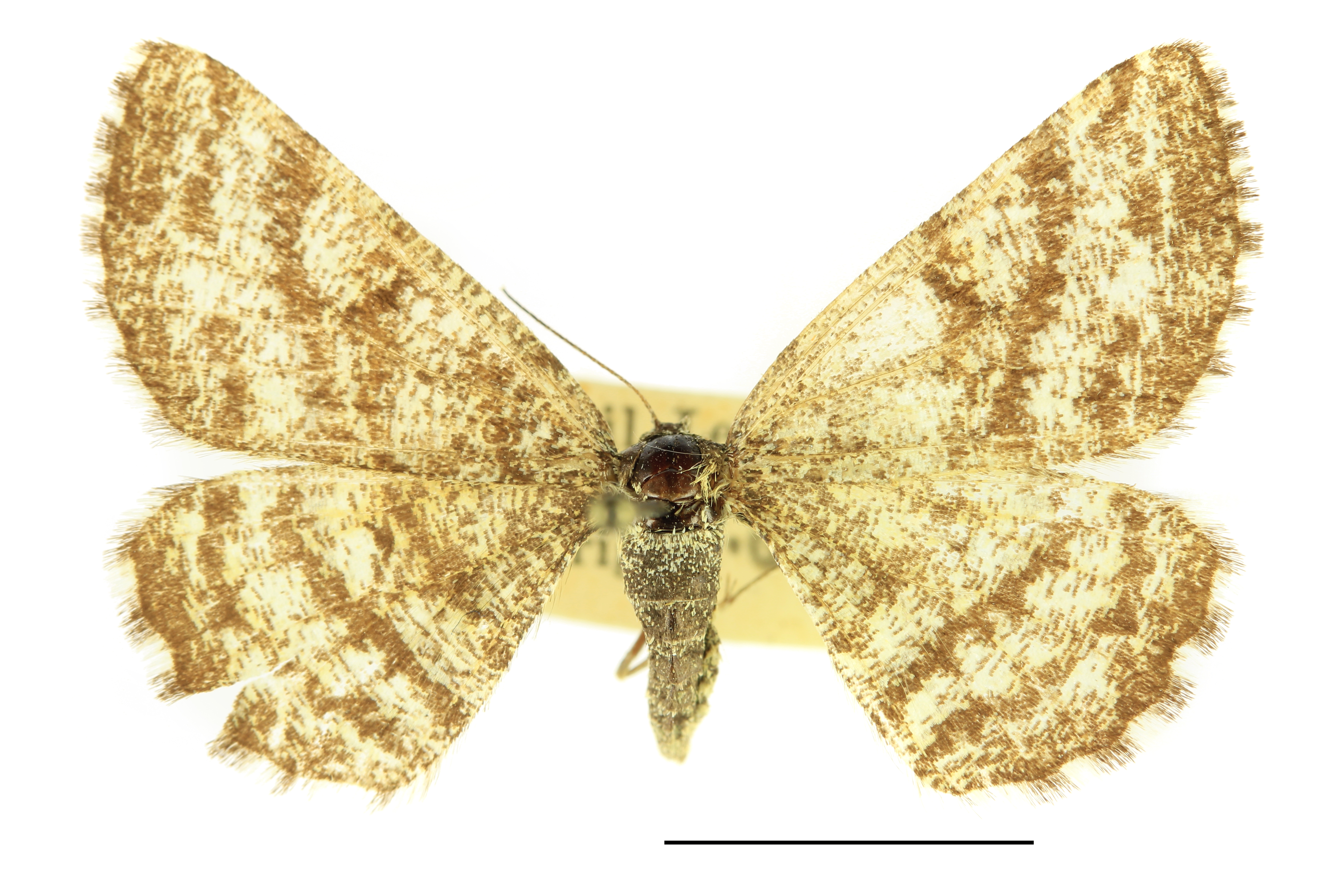 Ematurga atomaria female, insect collections SLU, Uppsala